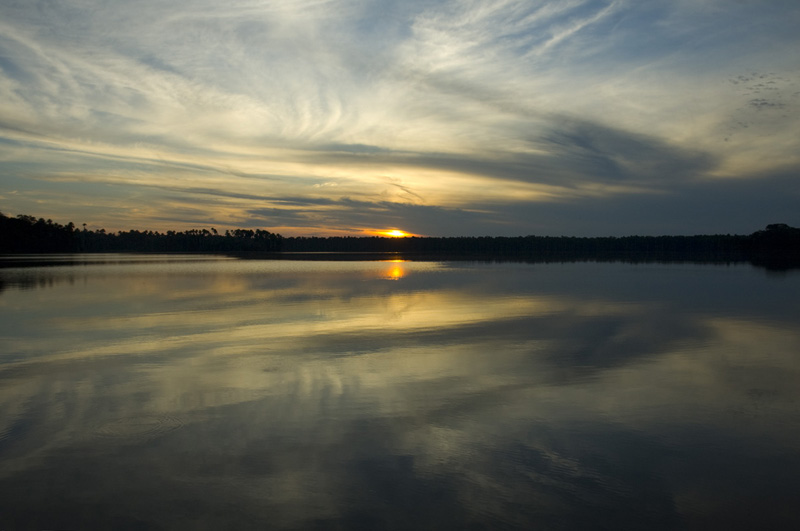 桑多瓦尔湖的日落